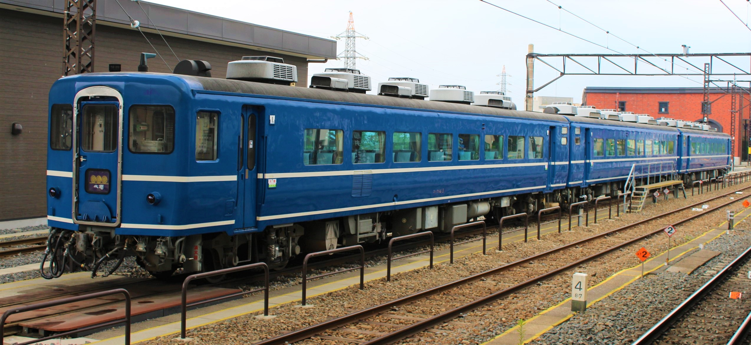 Tobu Railway 14 series passenger cars for the SL Taiju train service at Shimo-Imaichi Station